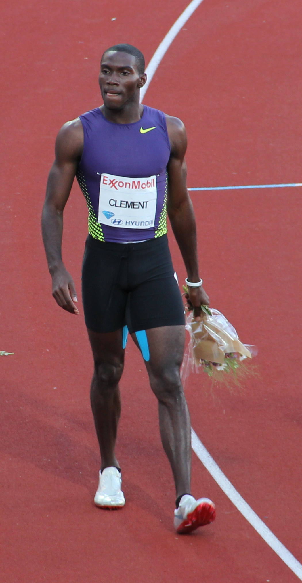 Kerron Clement after winning 400 m steeple at the Bislett Games 2010 - cropped